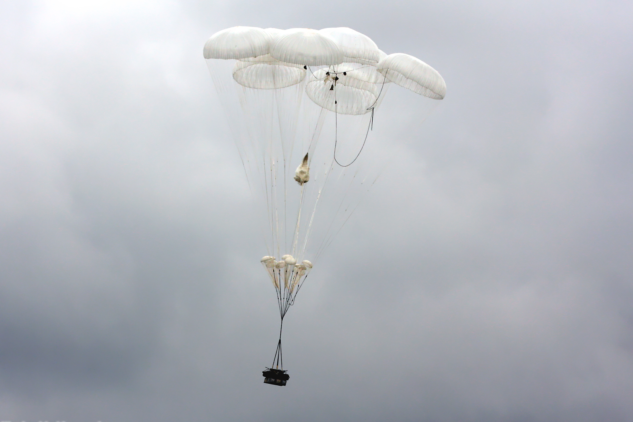 First the vehicles were dropped